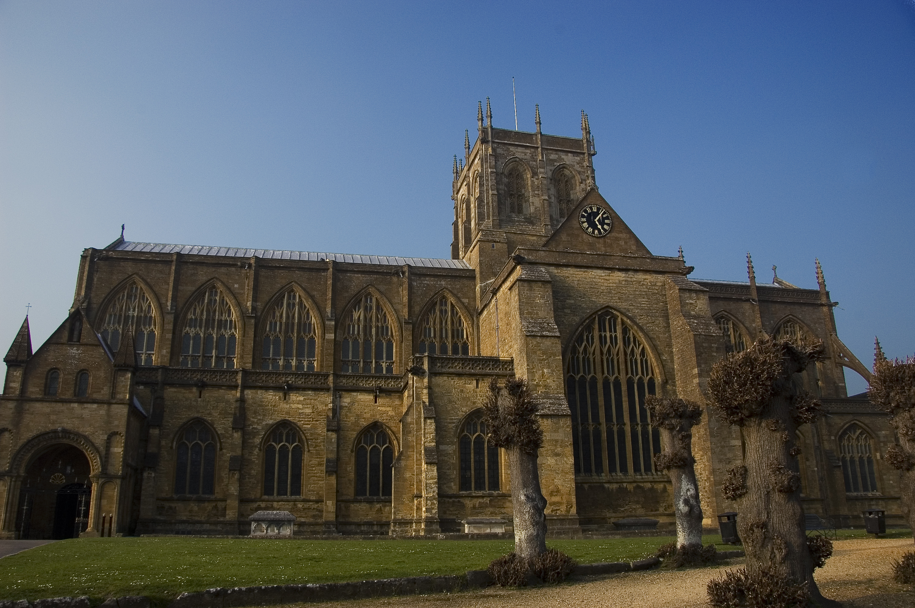 Sherborne Abbey, Dorset, England. Taken by Joe D, 2004-10-30.